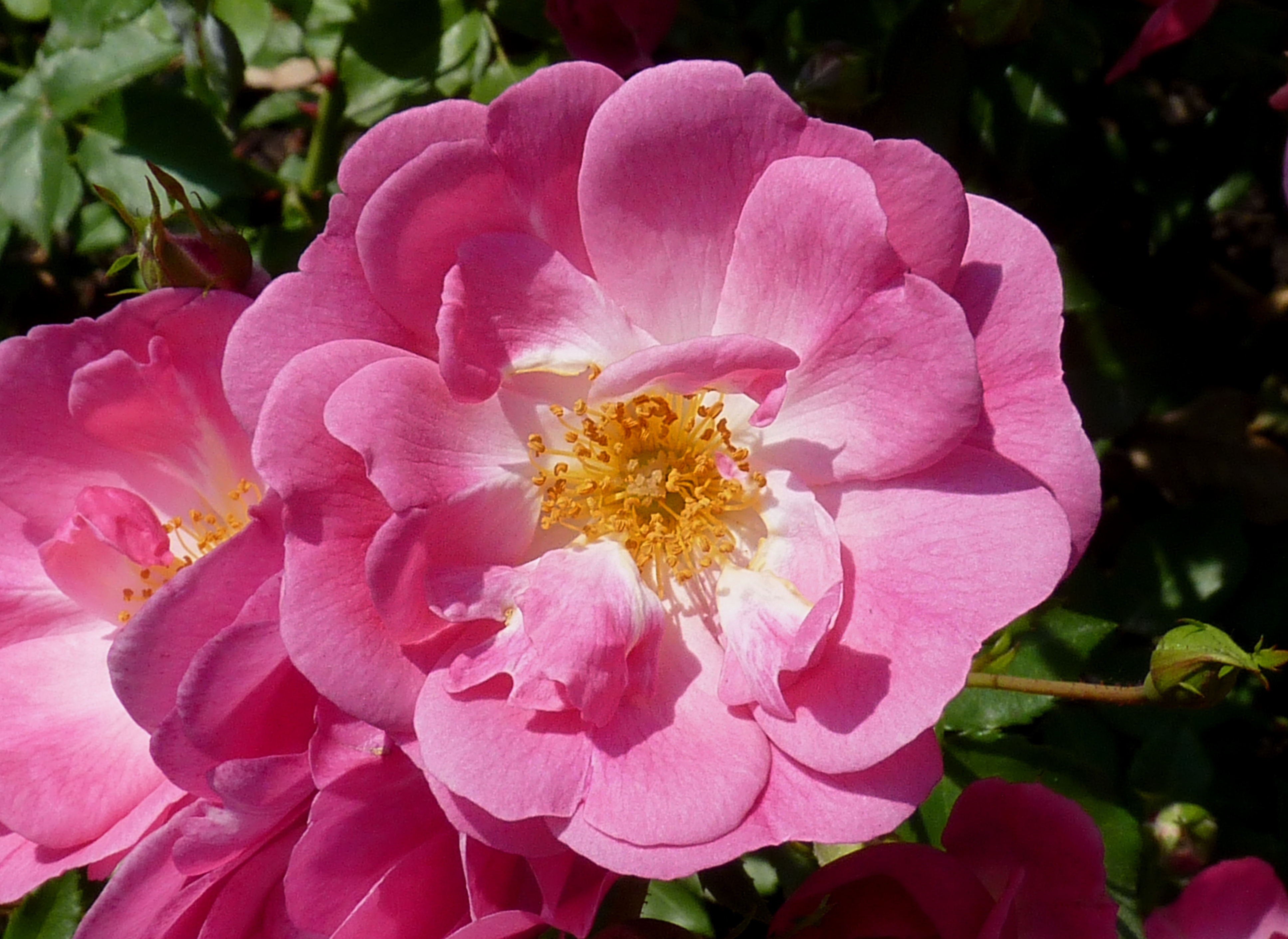 Rosa 'Mozart' (Peter Lambert, Germany, 1937), in the international rose garden of Kortrijk, Belgium.